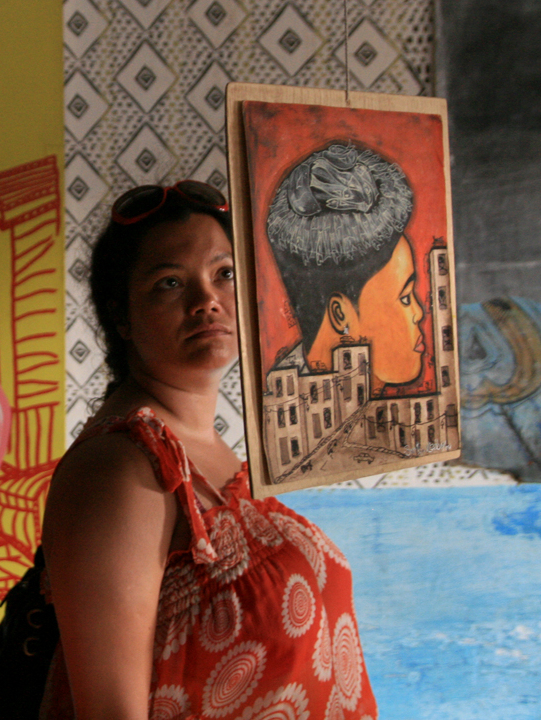 SUD Salon Urbain de Douala 2010. Triennial festival promoted by doual'art. Exhibition of Boris Nzebo. Tracey Rose. Photo by Sandrine Dole.